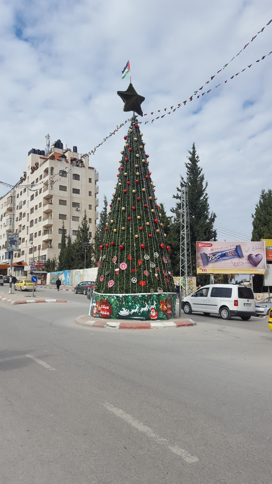 Christmas tree in Rafidia, Nablus.